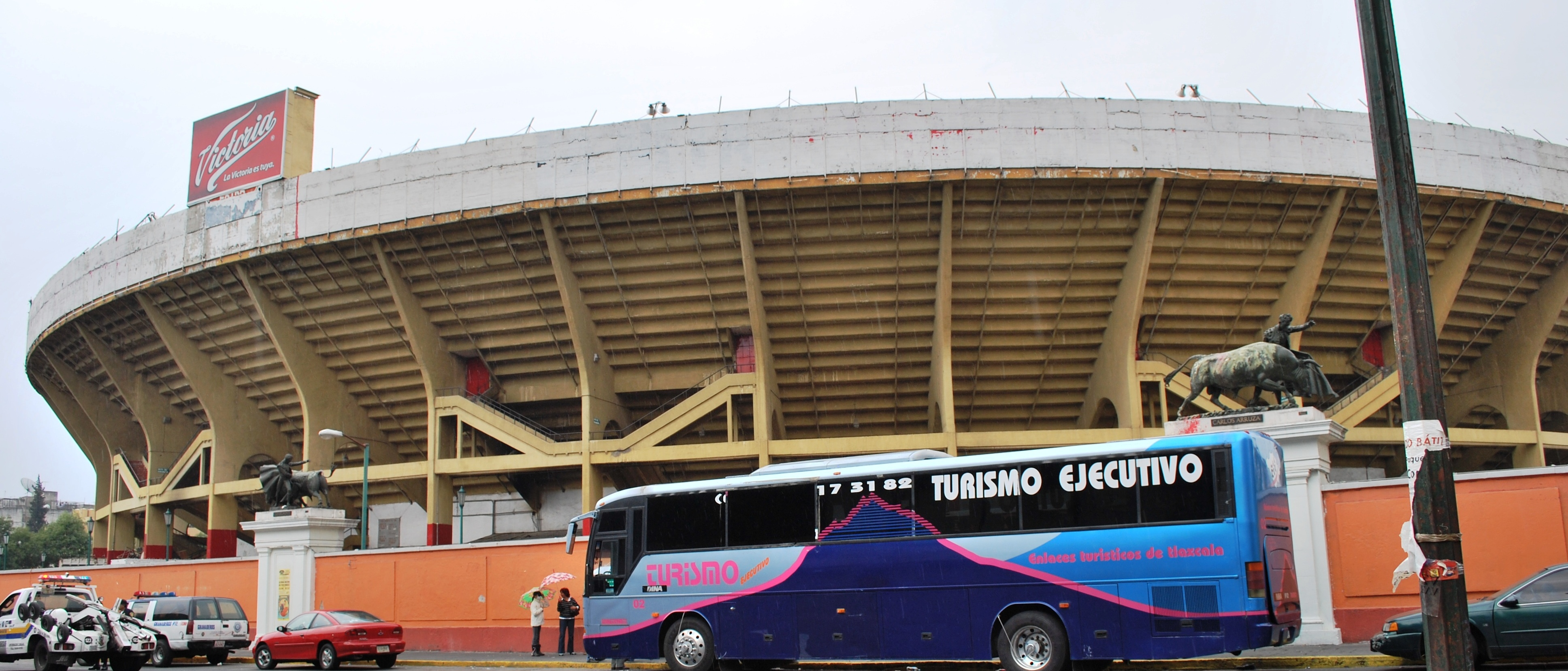 Panoramic of Plaza de Toros in Mexico City from the back.